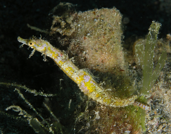 Short-pouch pygmy pipehorse Acentronura breviperula (Syn. Acentronura tentaculata) from East Timor